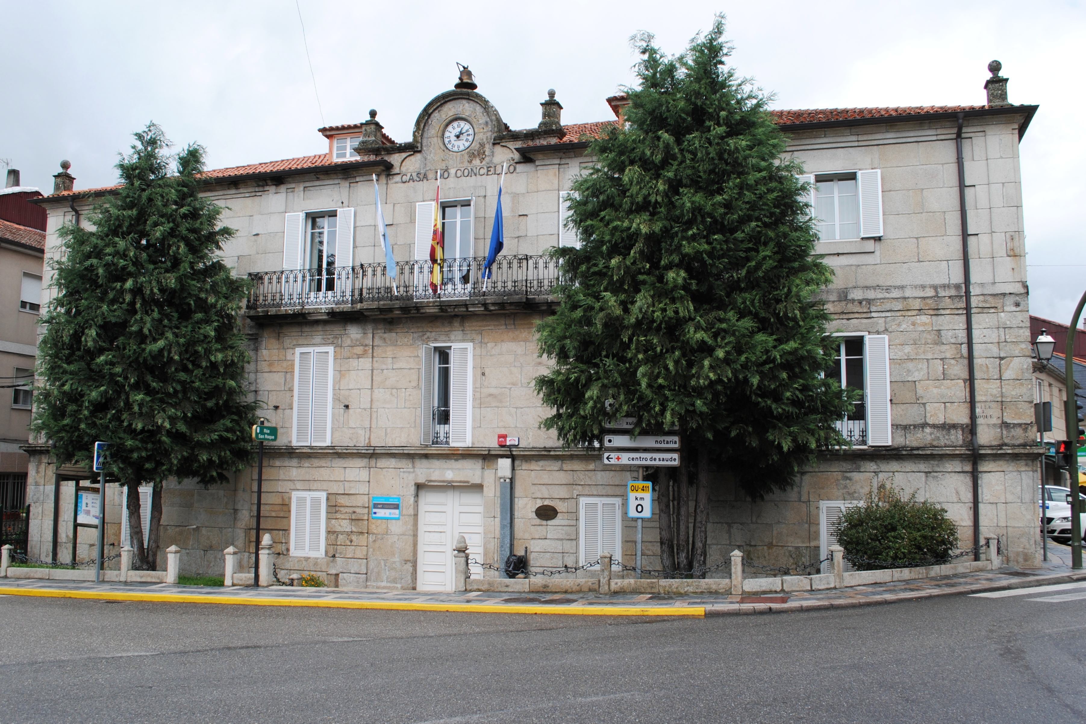 See title.